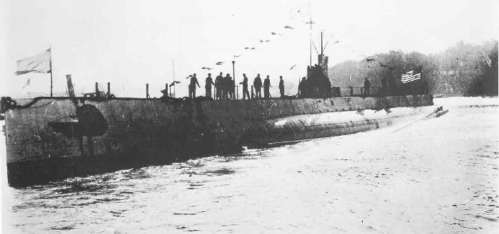 United States Navy submarine USS AA-2 (SS-60)), later renamed , being launched at the Fore River Shipbuilding Company at Quincy, Massachusetts